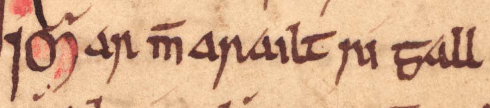 An excerpt from folio 41r of Oxford Bodleian Library MS Rawlinson B 489 (the Annals of Ulster). The excerpt concerns Ímar mac Arailt, King of Dublin (died 1054). The excerpt gives Ímar's name and title.